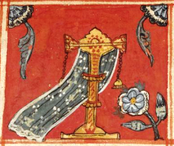 flag of 14 auspicious dreams in Jainism